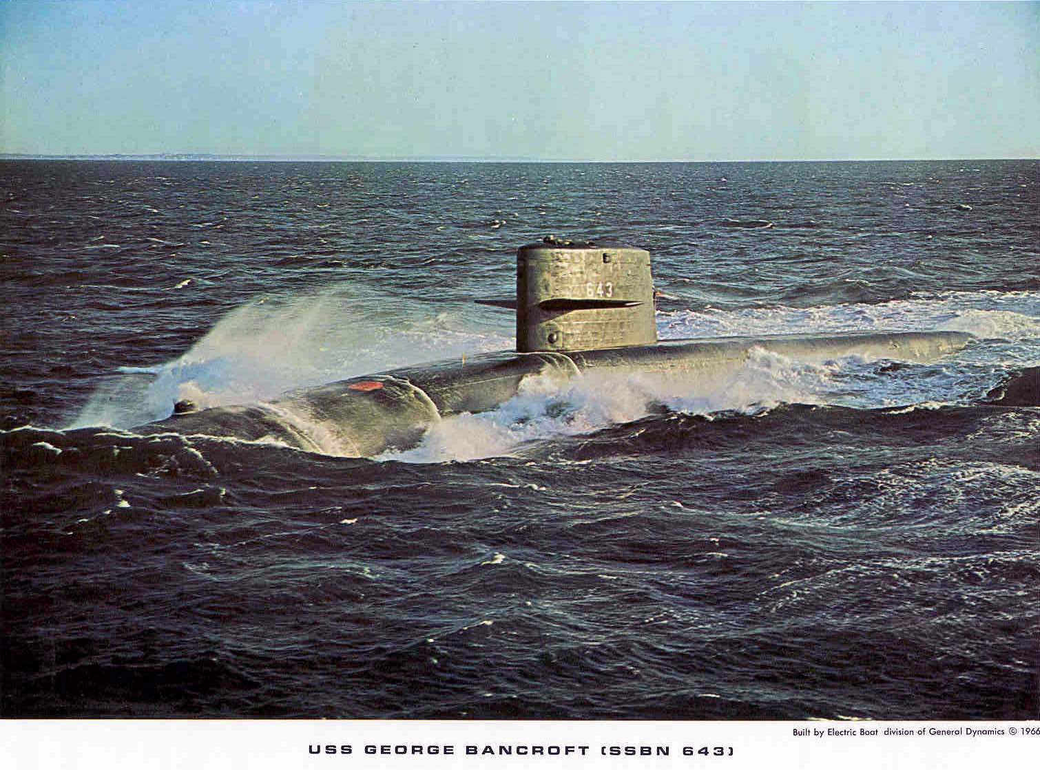 United States Navy fleet ballistic missile submarine , probably during her sea trials off the coast of New England.